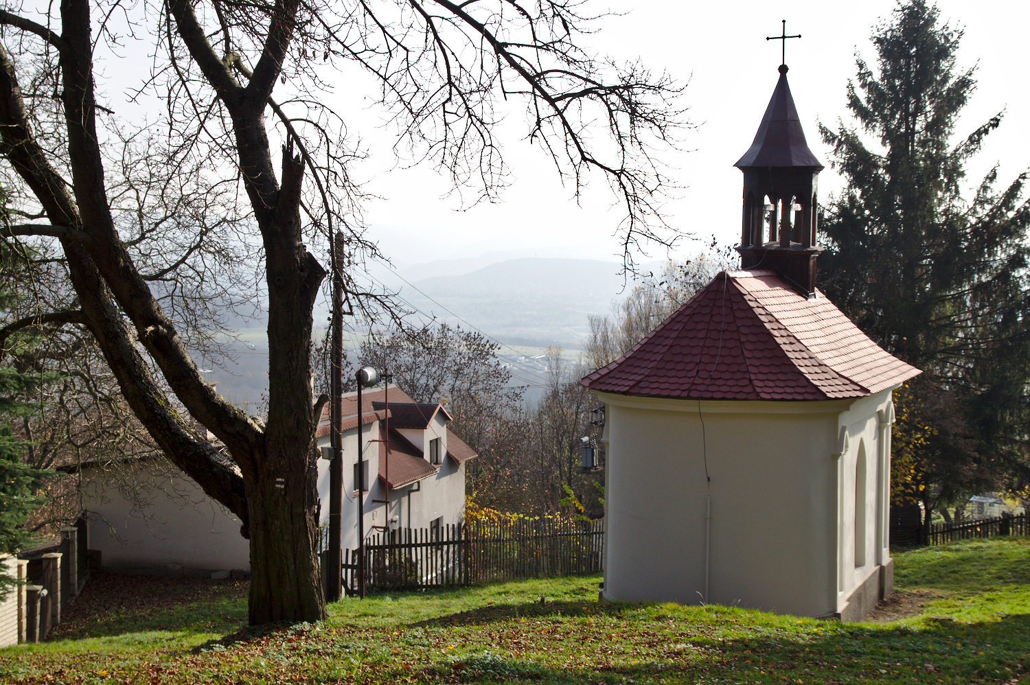 Liboňov square with a chapel in 2015.